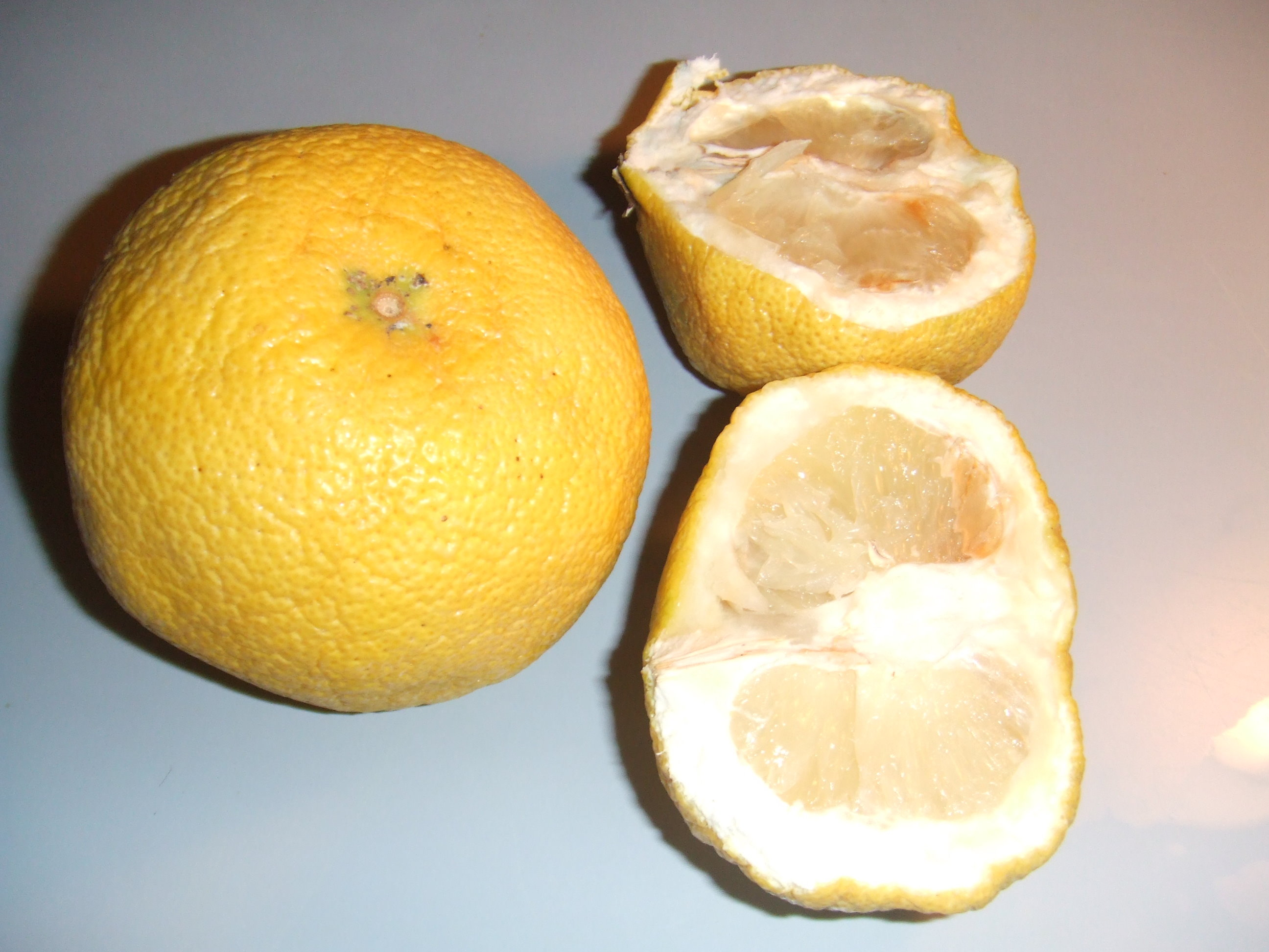 Oroblanco grapefruits.